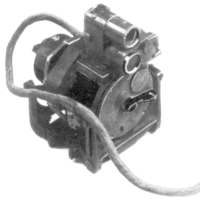 The Ferranti Gyro Sight Mk I - This type sight calculated target lead (the amount of aim-off in front of a moving target) and bullet drop automatically. The pilot/gunner had to look into the narrow field folded prismatic telescopic sight at the top of the device. The sight incorporating a gyroscopic mechanism that computed the necessary deflections required to ensure a hit on the target. It saw limited production in the spring of 1941, with the sights being first used operationally against Luftwaffe raids on Britain in July the same year. The Mark I sight had a number of drawbacks however, including a limited field of view, erratic behavior of the reticle, and requiring the pilot/gunner to put their eye up against an eyepiece during violent maneuvers. Production of the Mark I was postponed and work started on an improved sight. It was replaced by the Mark II which incorporated a reflector sight, allowing the pilot to view through the sight at a more comfortable (and safer) distance.